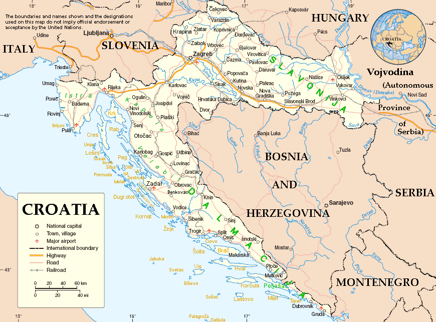 Map of Croatia